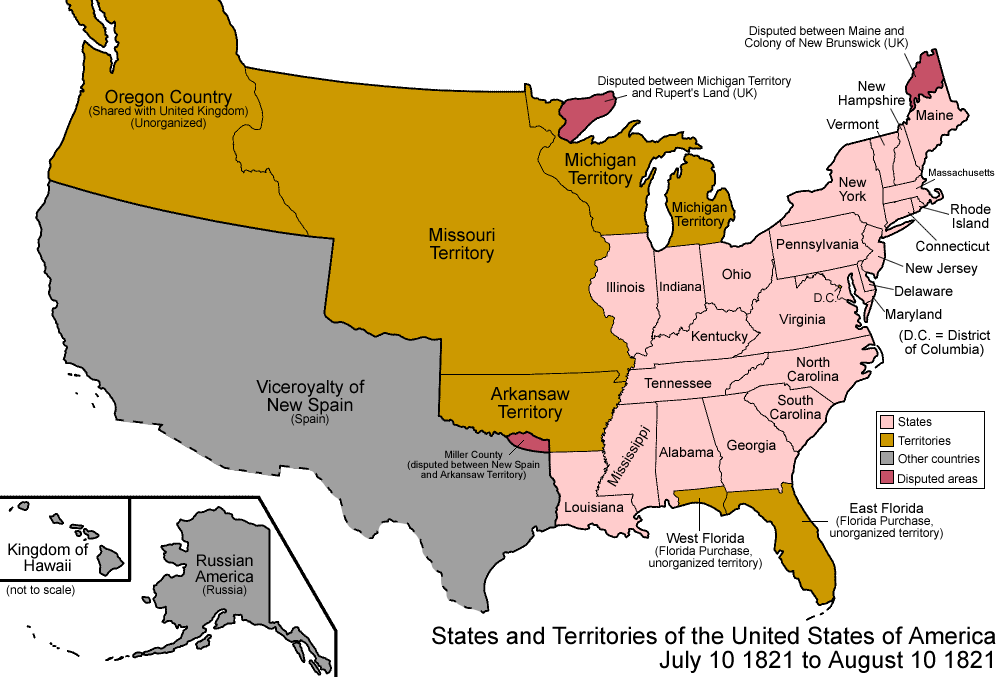 Map of the states and territories of the United States as it was from July 1821 to August 1821. On July 10 1821, the Treaty of 1819 enters in to effect, settling all disputes with the Spanish colonies; the borders were defined in the west, and both Floridas were ceded to the United States, having been purchased as part of the treaty; a minor conflict was created with Arkansaw Territory's Miller County. On August 10 1821, part of Missouri Territory was admitted as the state of Missouri; the rest became unorganized.